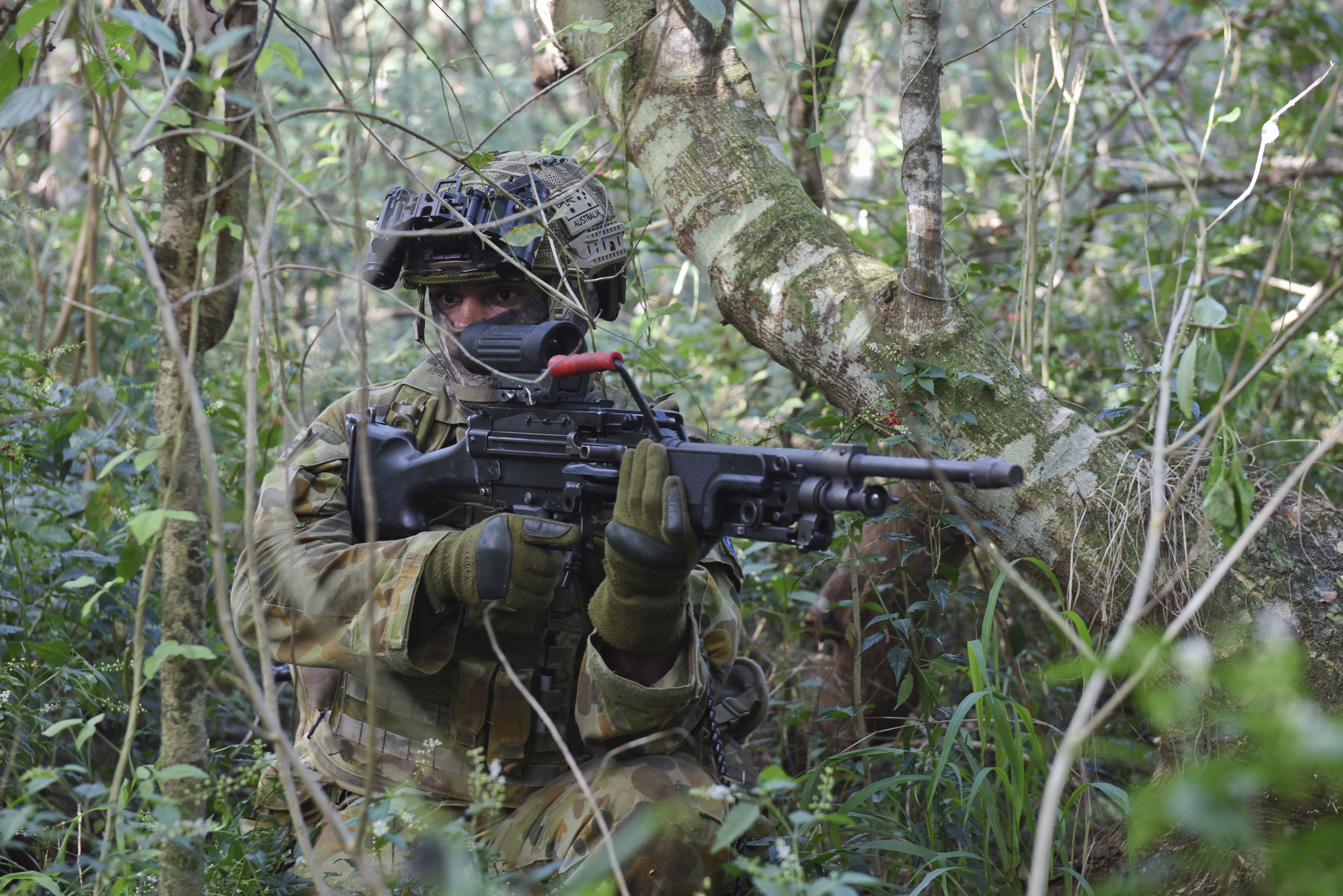 Royal Australian Air Force Leading Air Craftsman Kyle Weatherall, No. 1 Security Forces section gunner, searches for simulated opposing forces during Exercise Cope North 17 at North Field, Tinian, Feb. 22, 2017. The exercise includes 31 units and more than 2,700 personnel from three countries and continues the growth of strong, interoperable relationships within the Indo-Asia-Pacific region through integration of airborne and land-based command and control (U.S. Air Force photo by Airman 1st Class Jacob Skovo)